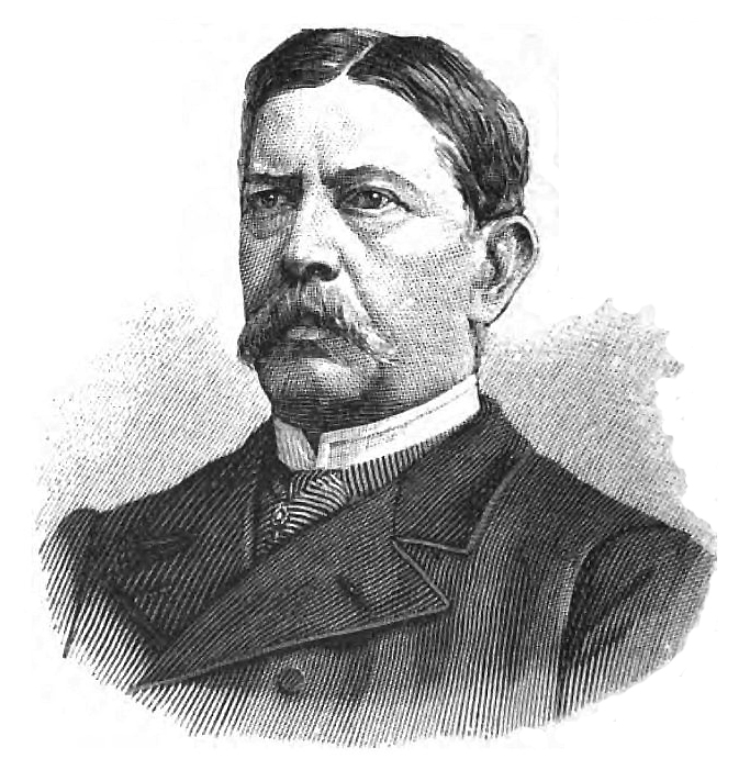 Eskilander Thomasson (1829-1891), Swedish jurist, mayor of Lund 1879-1889 and member of parliament.